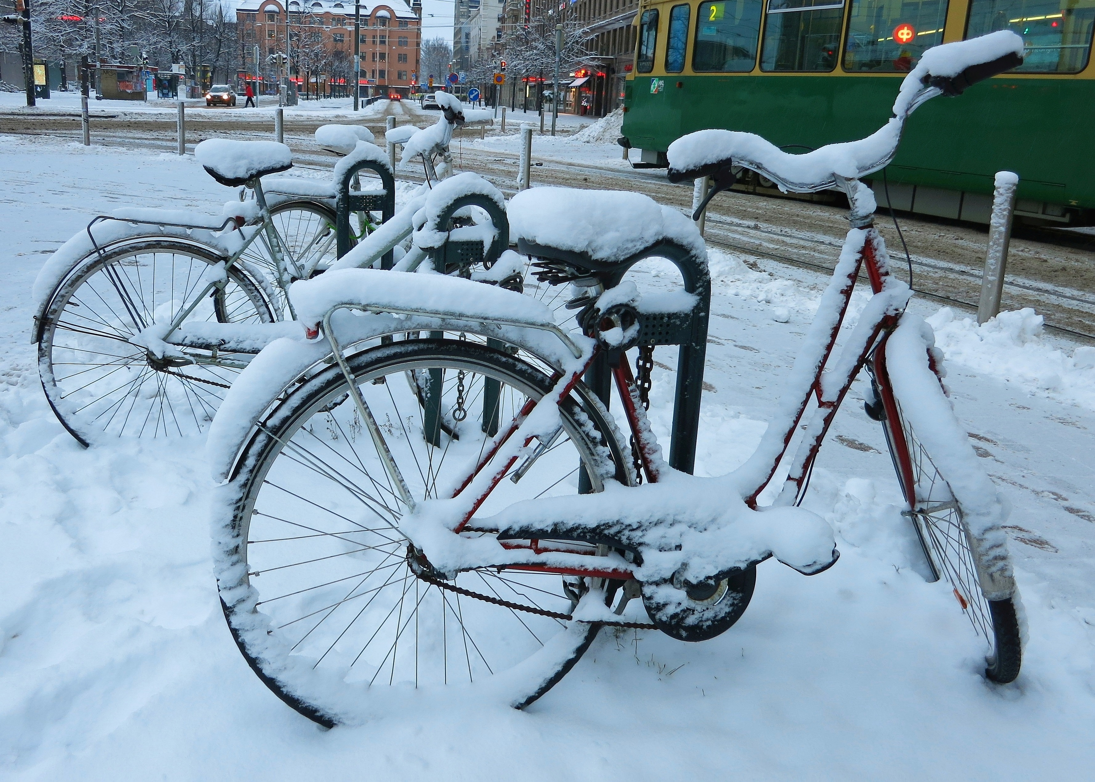 Bicycles covered with snow in Helsinki, Finland